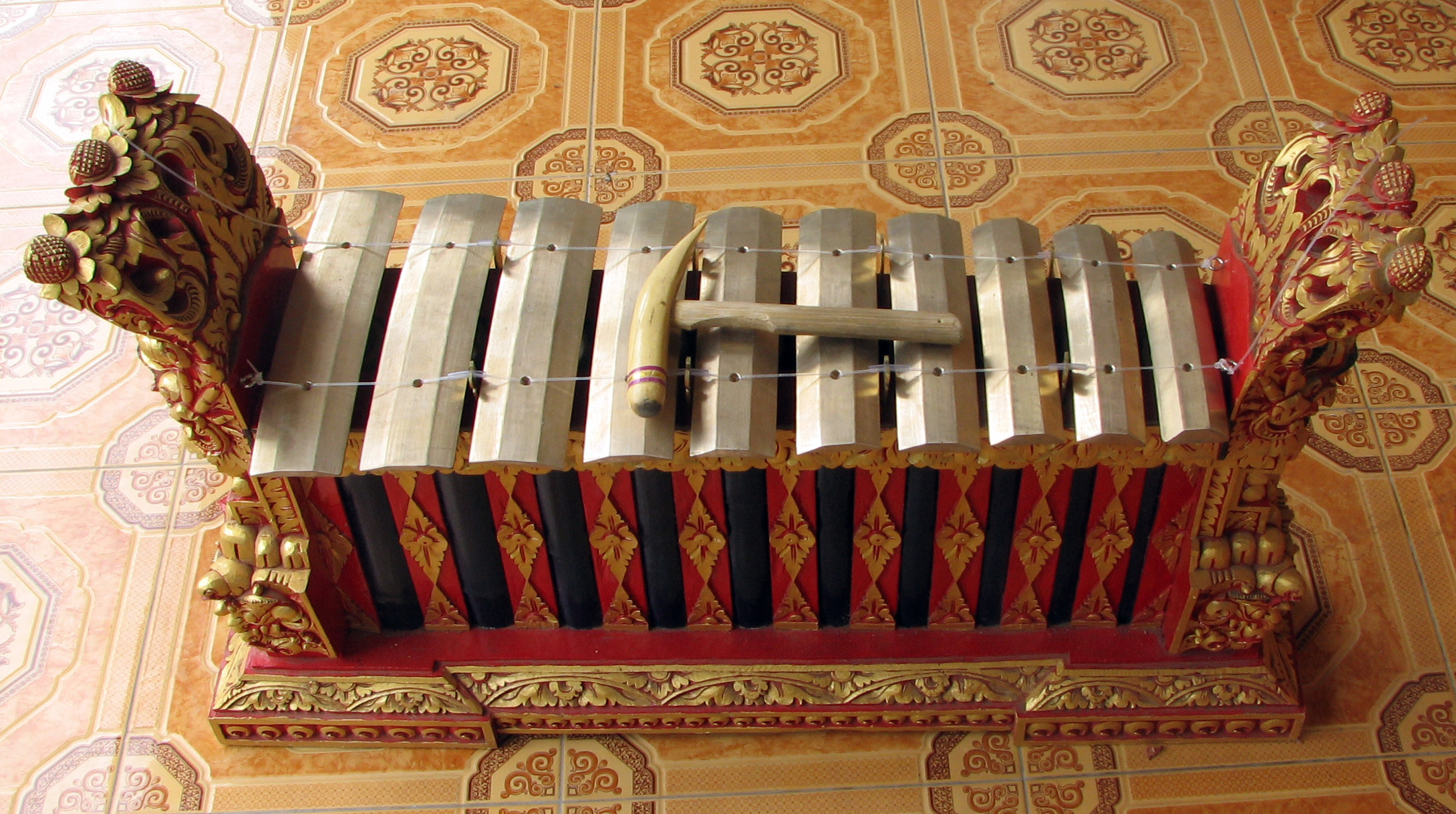 Indonesian Metallophone